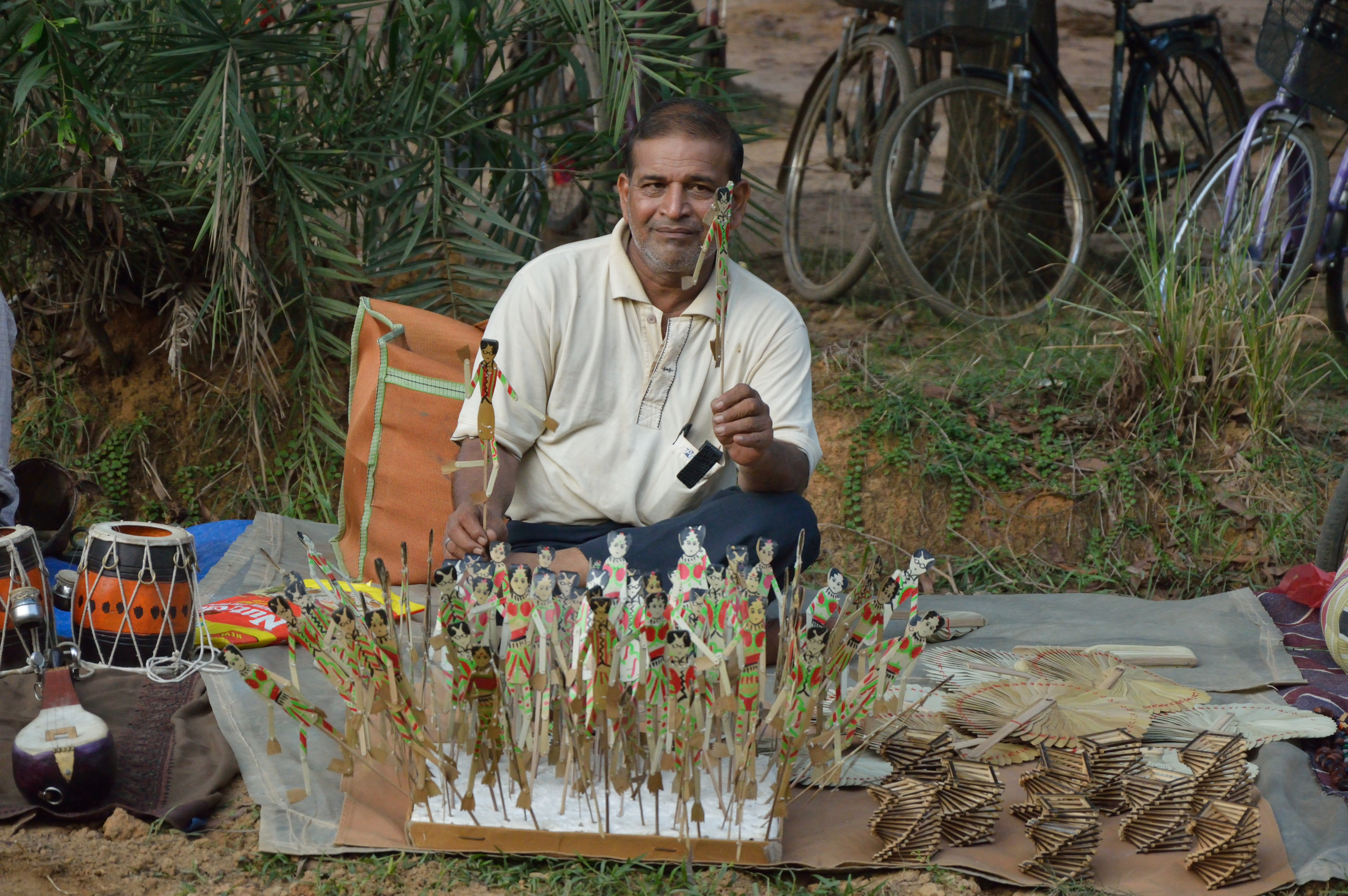 Photographed at the Sonajhuri-Khoai area. It is very near from Santiniketan and Prantik railway station, Birbhum. In every Saturday Haat ( bn: Sanibarer Haat) happen mainly with village people made ethnic decorative ornaments, house-hold materials and home-made sweets & snacks. The Baul songs are also performed by various Baul groups. The buyers are mainly come from Kolkata or other parts from West Bengal.